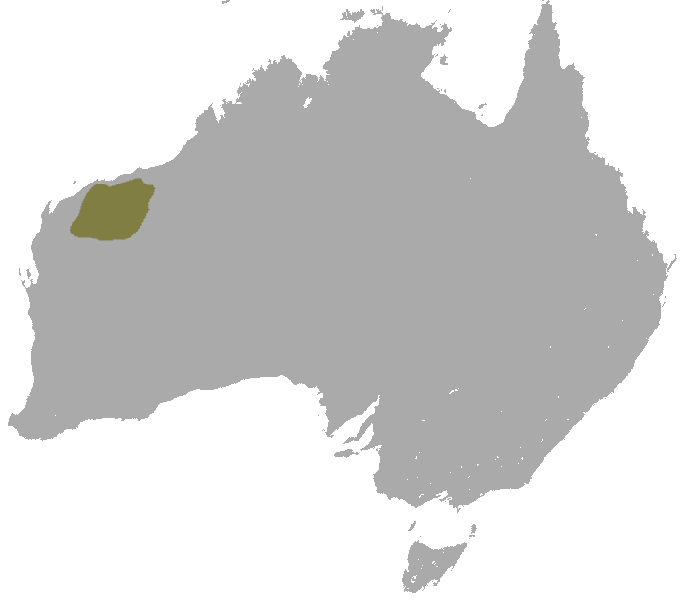 Rothschild's Rock Wallaby (Petrogale rothschildi) range